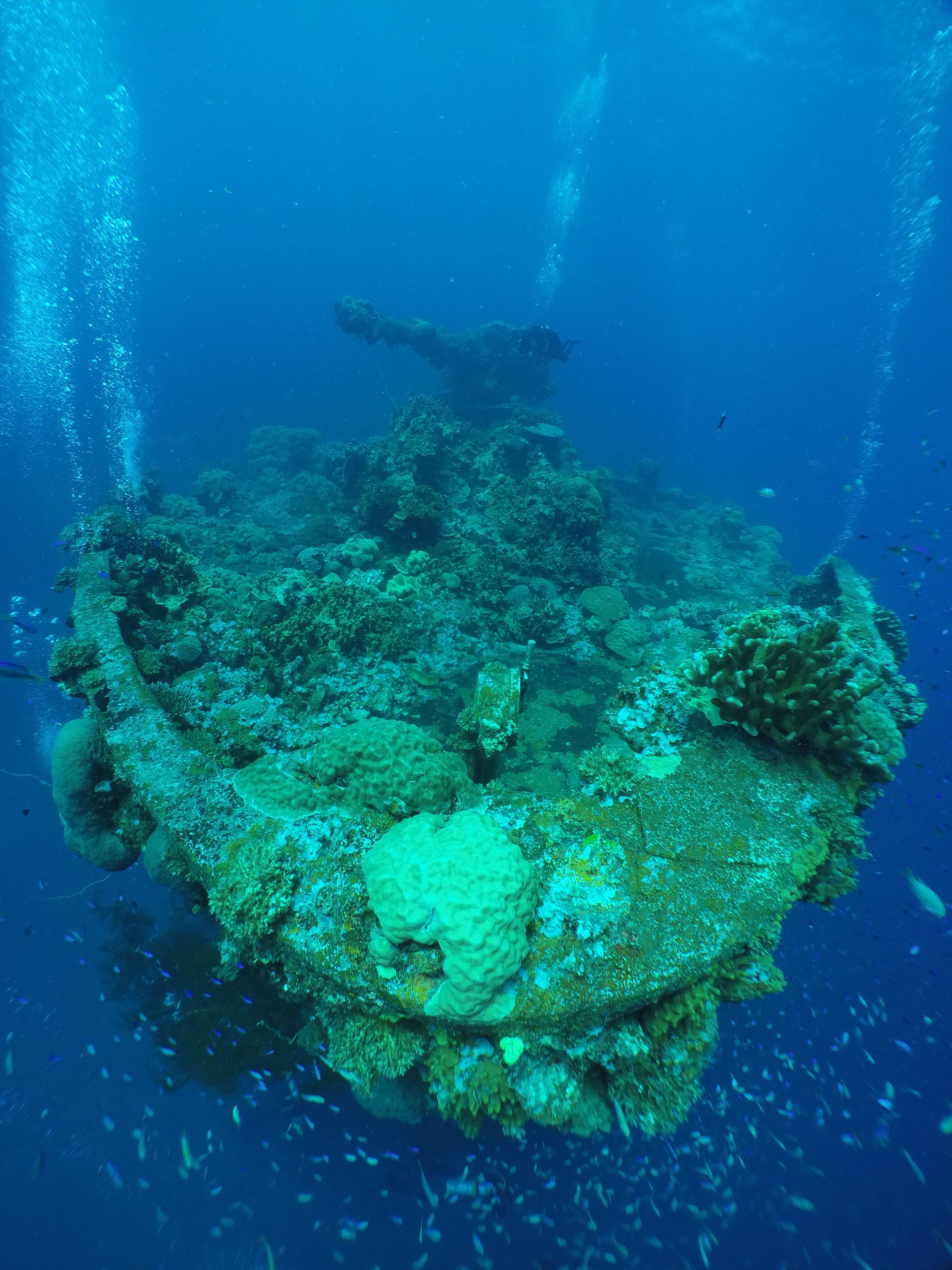 Fujikawa maru